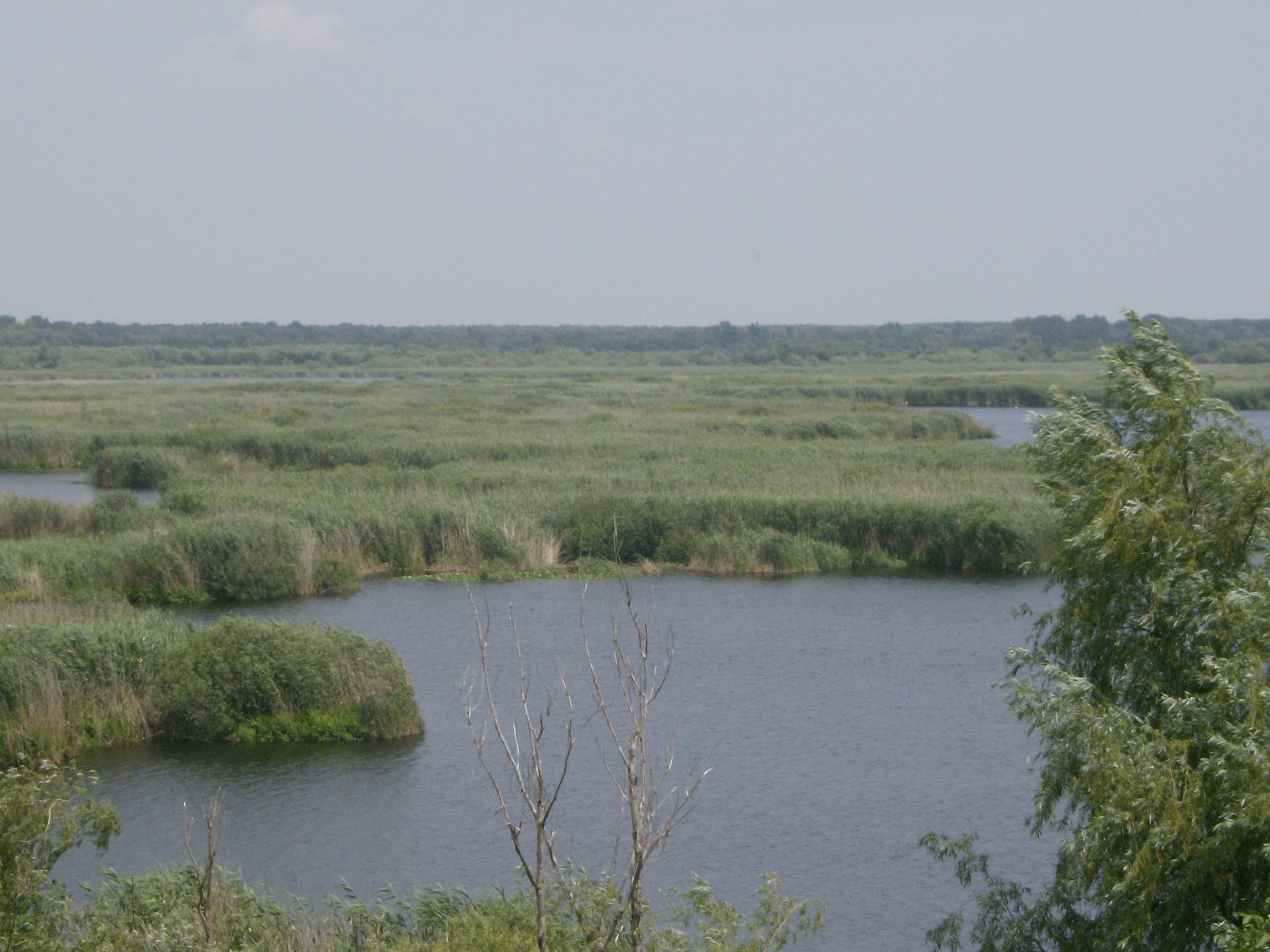 Srebarna reserve